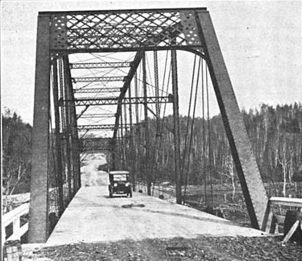 Steel Bridge over the Dead River on then M-35, now County Road 510 in Negaunee Township, Marquette County, Michigan, United StatesPhoto captioned as "265 ft. High Truss Bridge, Dead River near Marquette on Trunk Line No. 35. / Negaunee Township, Marquette County. 52001"